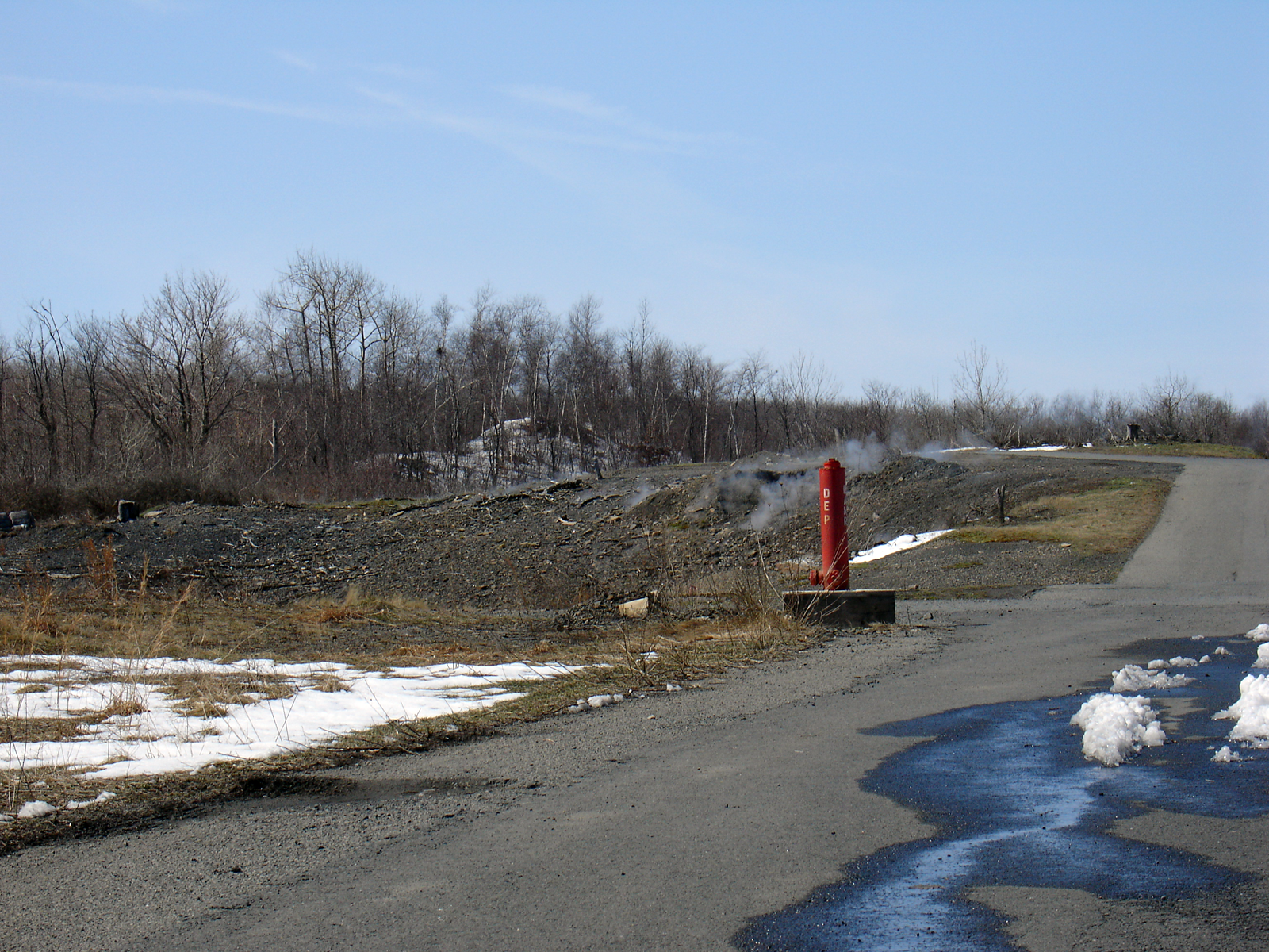 View of the outcrop area of the Buck Mountain coal seam in Centralia, Pennsylvania, where the underground coal mine fire has burned close to the surface. The municipal dump in which the fire started is on this same outcropping, but about a third of a mile east of this location behind the Odd Fellows Cemetery. It should be noted that areas which were not affected by the mine fire had 4-6 inches of snow on the ground.